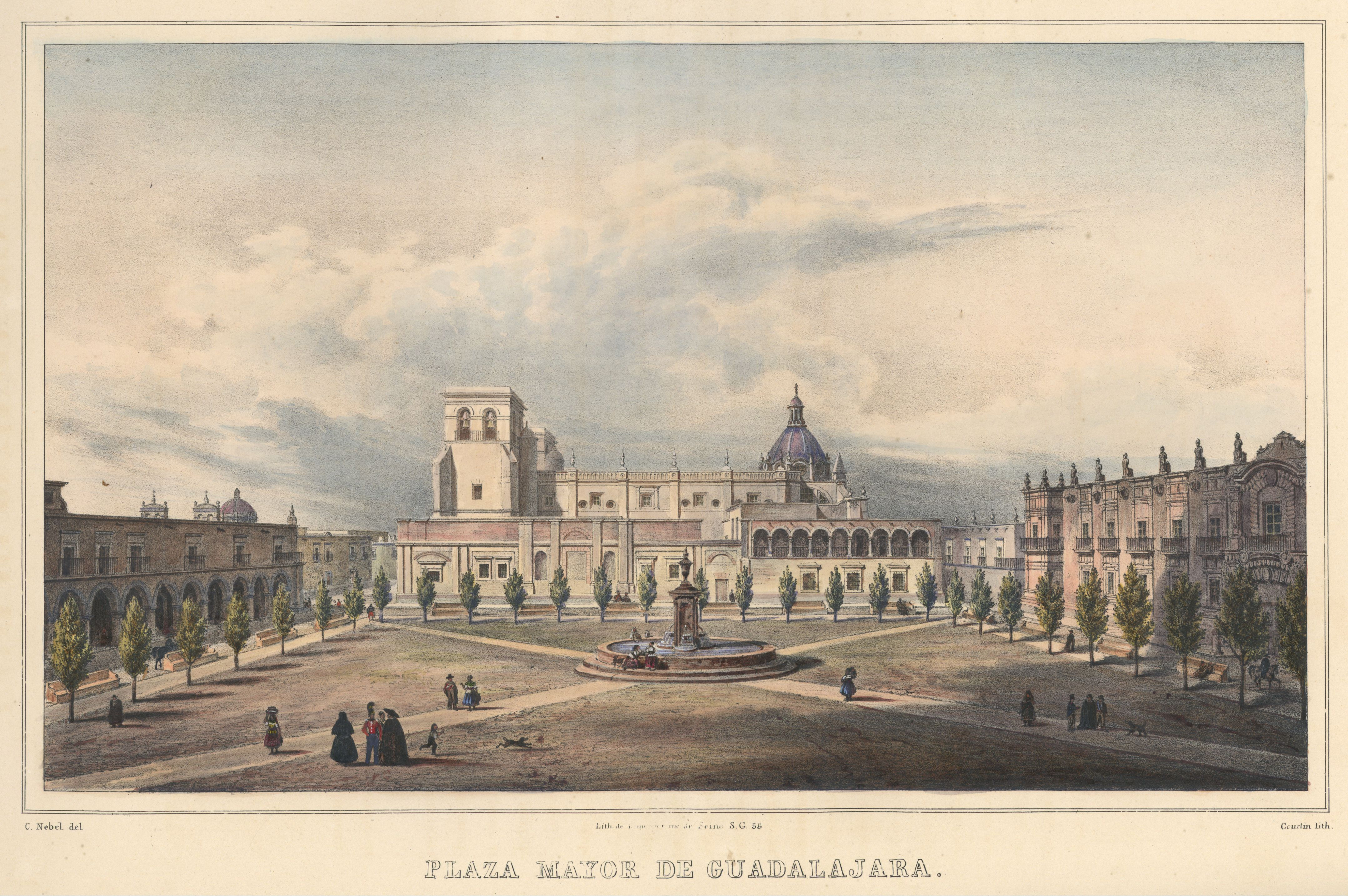 Plaza Mayor De Guadalajara. View of the main square of Guadalajara. Hand-colored lithograph highlighted with gum arabic. Original size (neat lines): 35.2×21.2 cm.